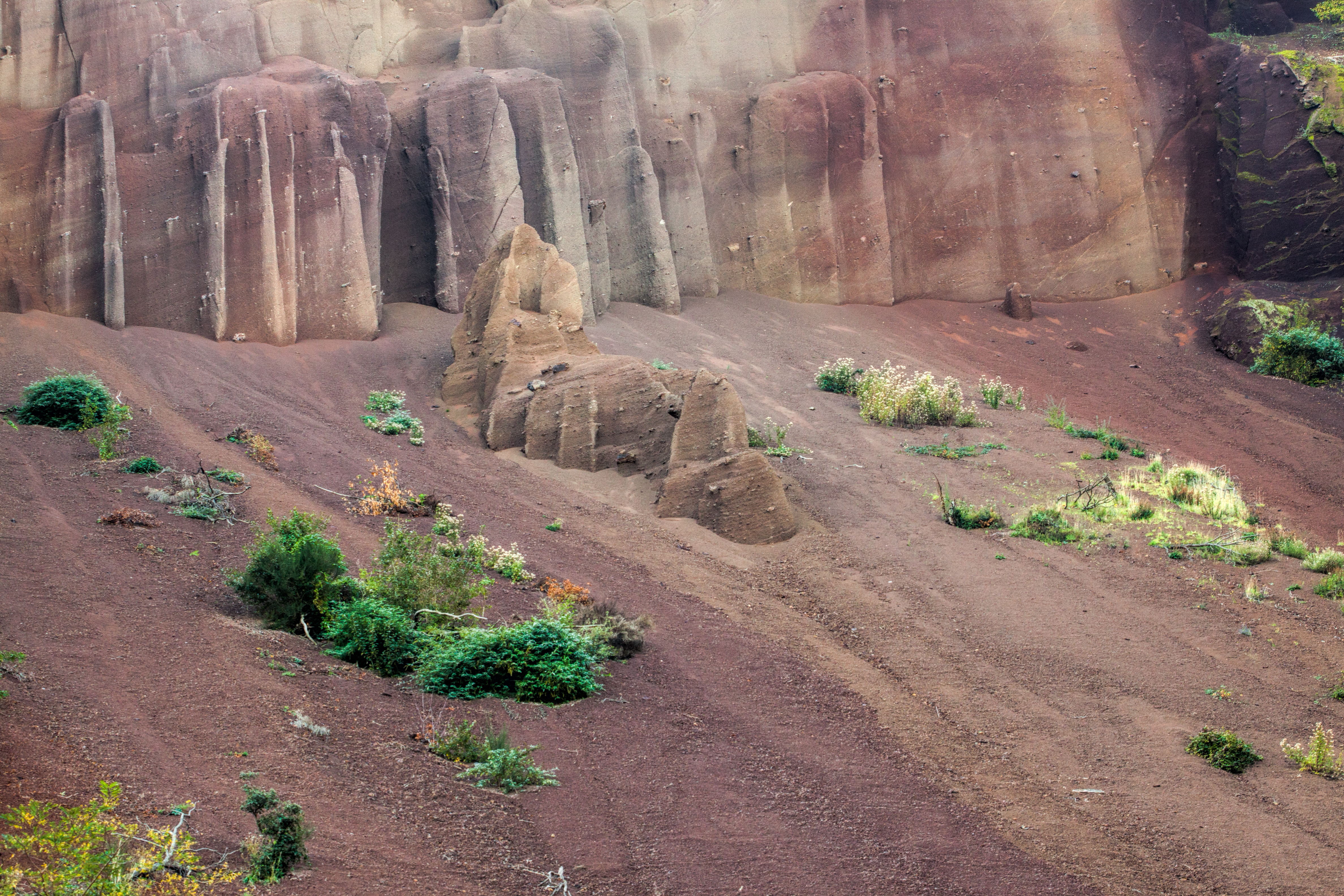 This is a a photo of a natural area in Catalonia, Spain, with id: ES510010